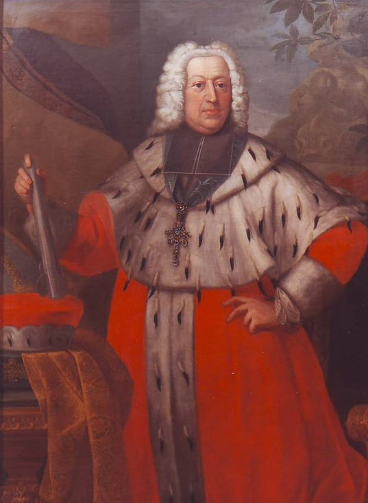 Portrait of Philipp Karl von Eltz-Kempenich (1665-1743)